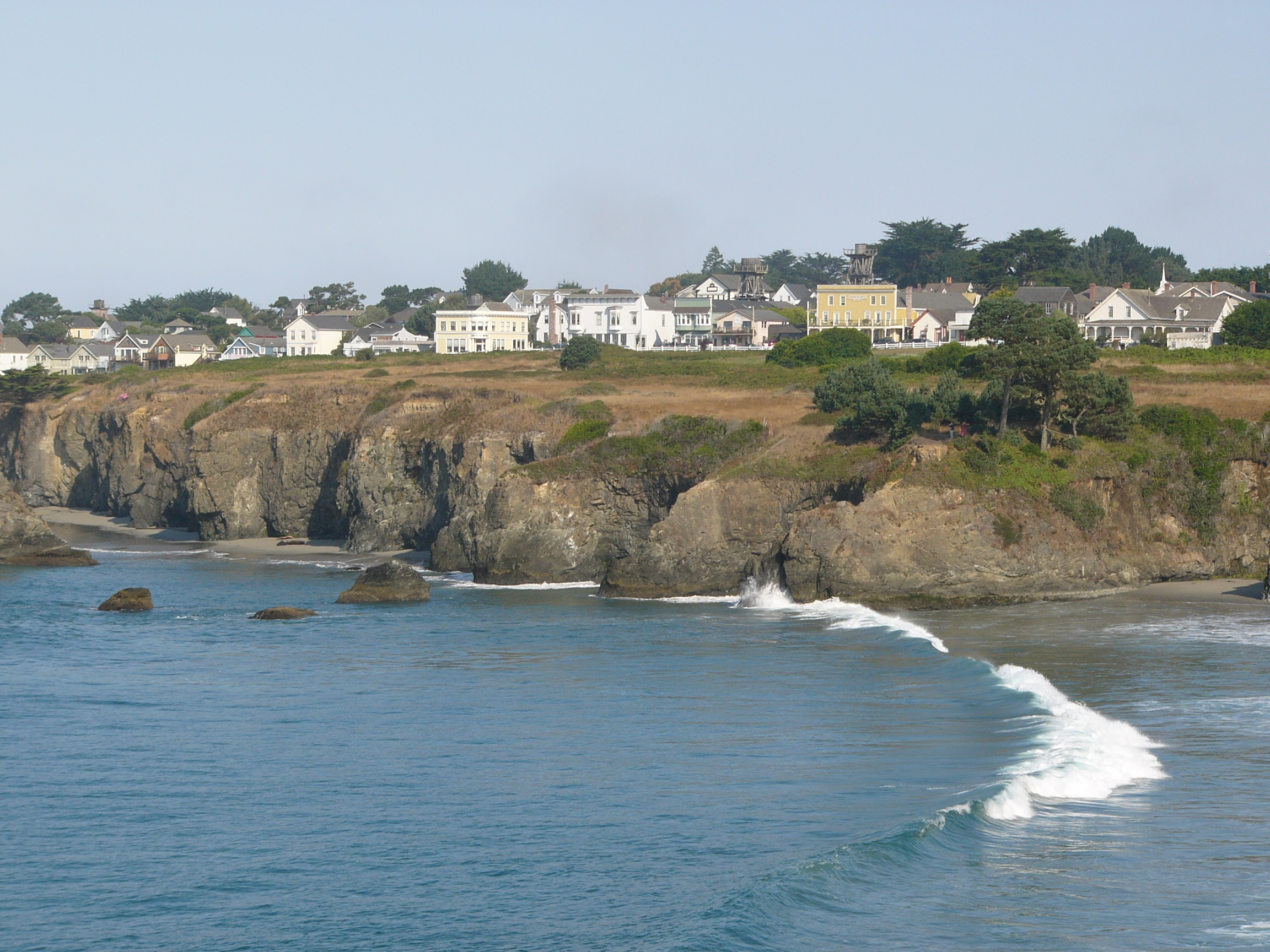 Mendocino, California … on a rare sunny day.